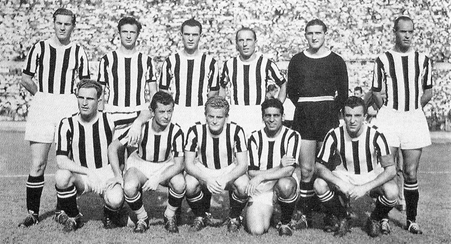 A line-up of Juventus F.C. in the 1949–50 season. From left to right, standing: K. A. Præst, S. Manente, G. Mari, A. Bertuccelli, G. Viola, A. Piccinini; crouched: J. Hansen, E. Muccinelli, G. Boniperti, R. Martino, C. Parola (captain).